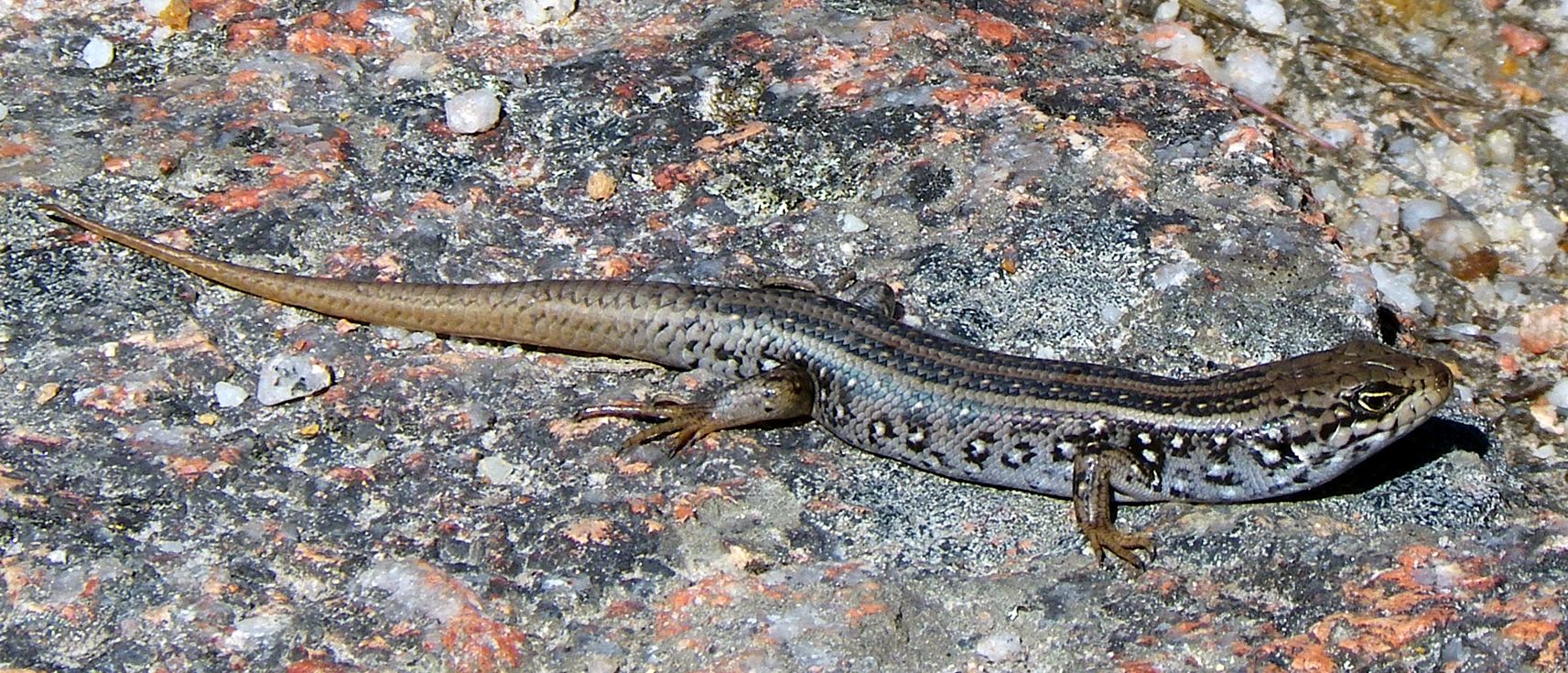 White's Skink, Freycinet peninsula, Tasmania. Photographer : Liese Coulter on April 09 2010.